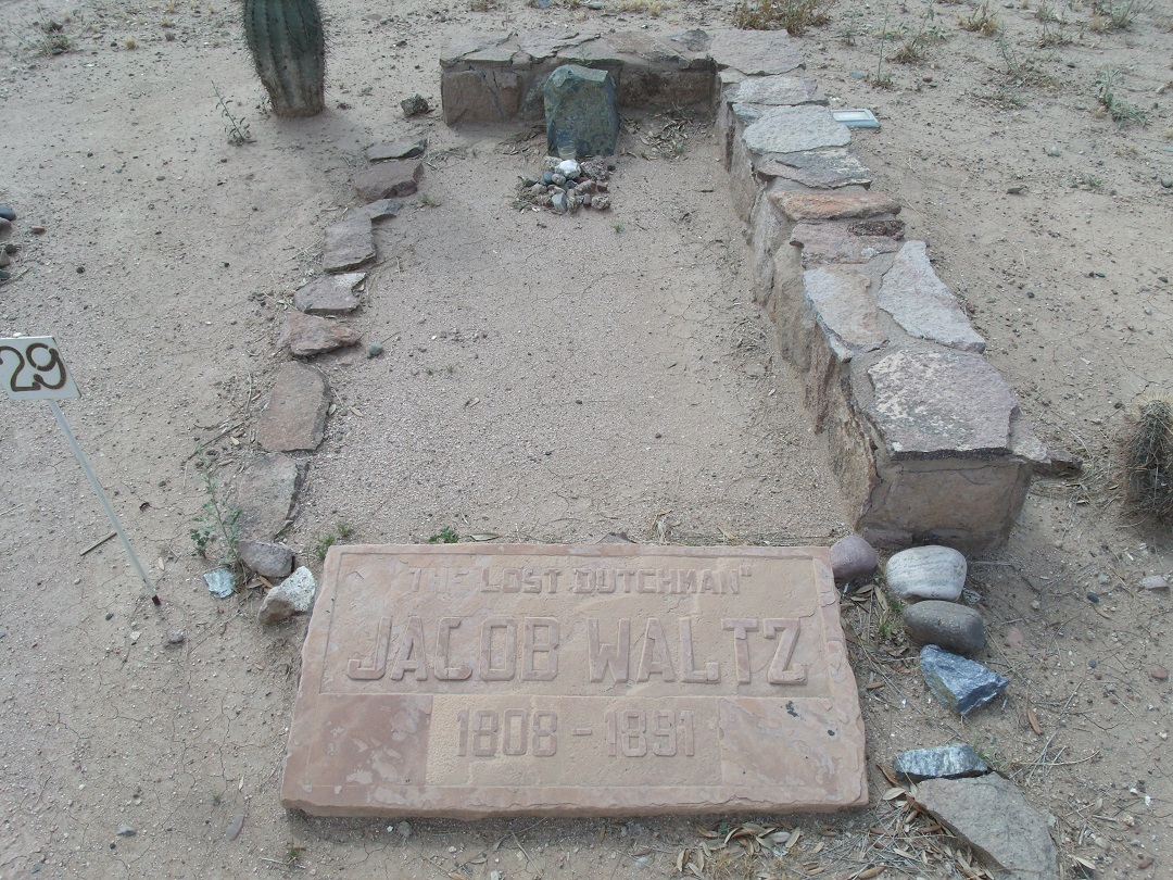 Grave site of Jacob "Dutchman" Waltz, a German immigrant who it in the 19th century discovered a gold mine in Arizona and kept its location a secret, hence the "Lost Ducthman's Mine". The grave is located at 1317 W. Jefferson Street in the "Masonic Cemetery" section of Phoenix's historic Pioneer & Military Memorial Park. The Pioneer & Military Memorial Park is listed in the National Register of Historic Places, reference #06001317.